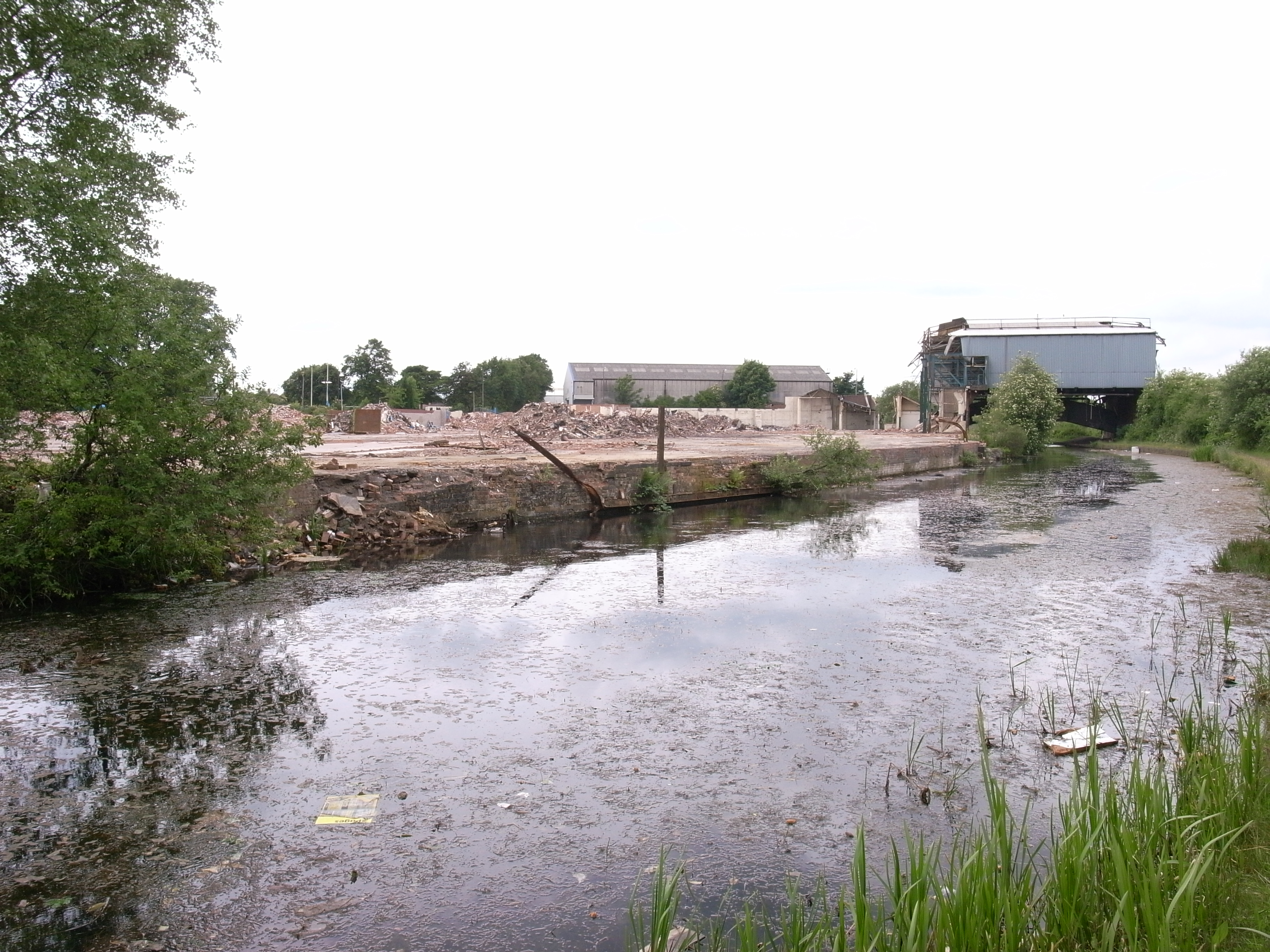 Part of the Wednesbury Oak Loop canal near Bradeley, West Midlands (county), England. The demolished GKN Sankey factory, still shown standing extensively on the Google aerial view at the date of uploading.